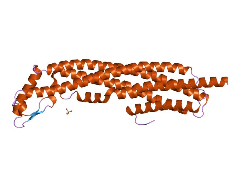 Cartoon representation of the molecular structure of protein registered with 1qoy code.